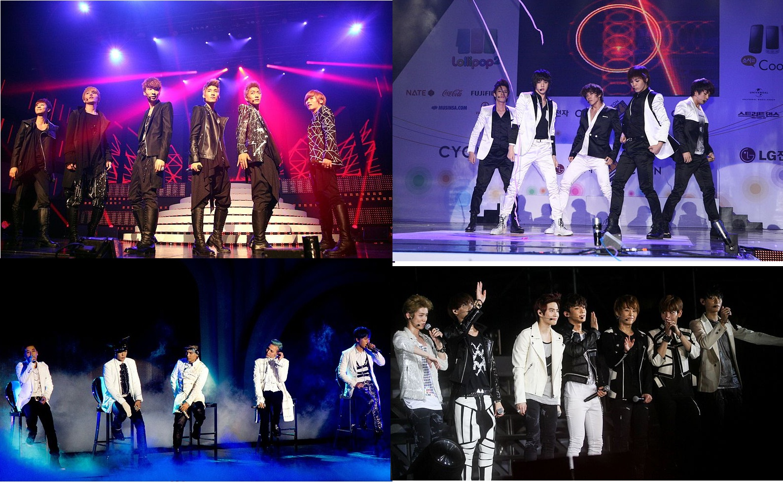 K-pop boybands clockwise from left: HITT, MBLAQ, BIig Bang and Exo